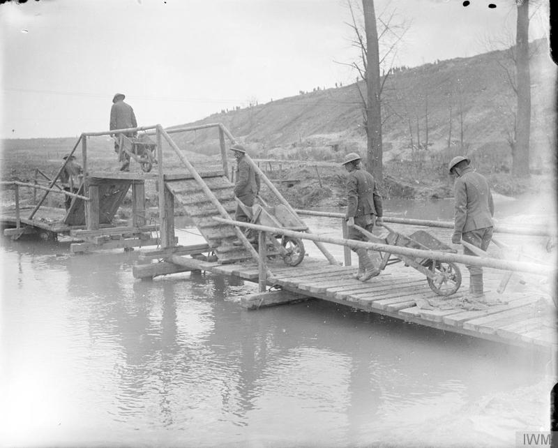 The Battle of Arras, April-may 1917 Royal Engineers using a temporary bridge over the River Scarpe near Saint-Laurent-Blangy, 22 April 1917.